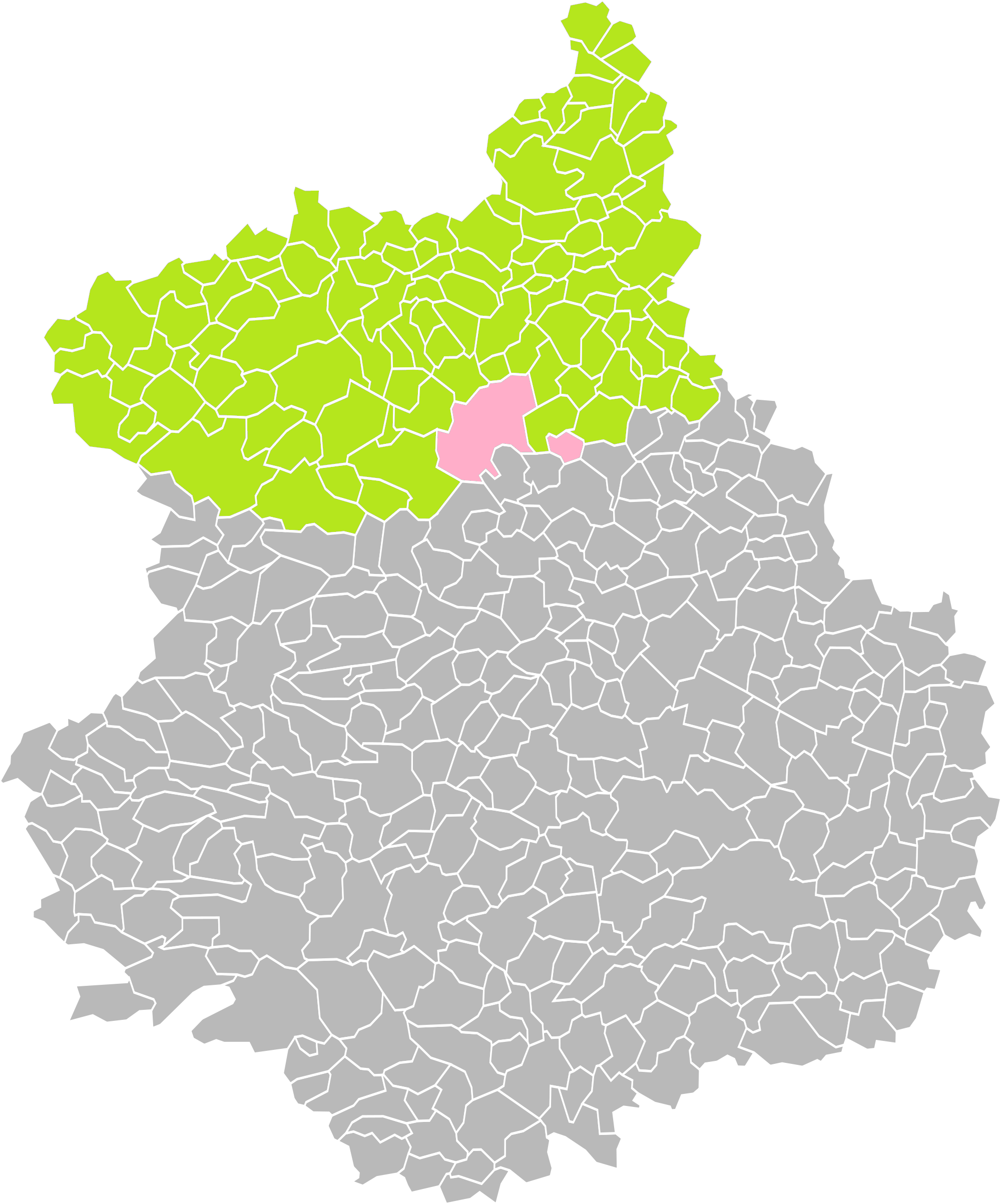 Location of the commune of Tremblay-les-Villages in the arrondissement of Dreux (Eure-et-Loir)